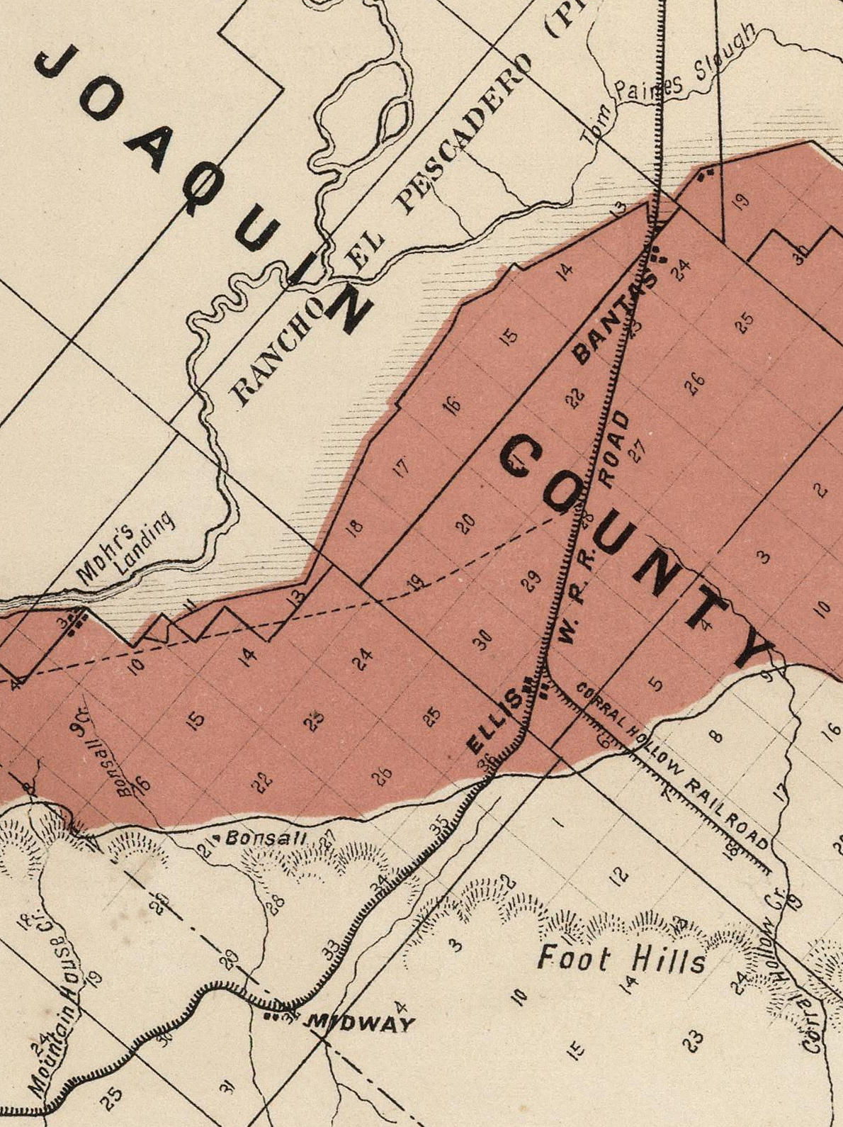 An 1877 map of the Westside Irrigation Company, showing the towns of Bantas and Ellis on the route of the original Western Pacific Railroad.